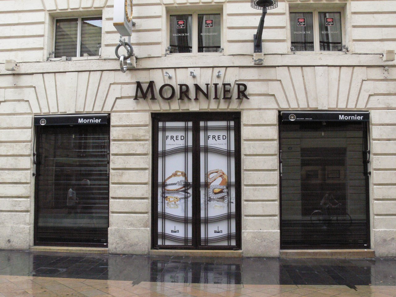 Description La bijouterie Mornier à Bordeaux DateJuly 2011SourceOwn work by the original uploaderAuthorJean Delvare La bijouterie Mornier à Bordeaux